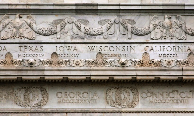 Detail of the bas-relief frieze on the Lincoln Memorial in Washington, D.C.